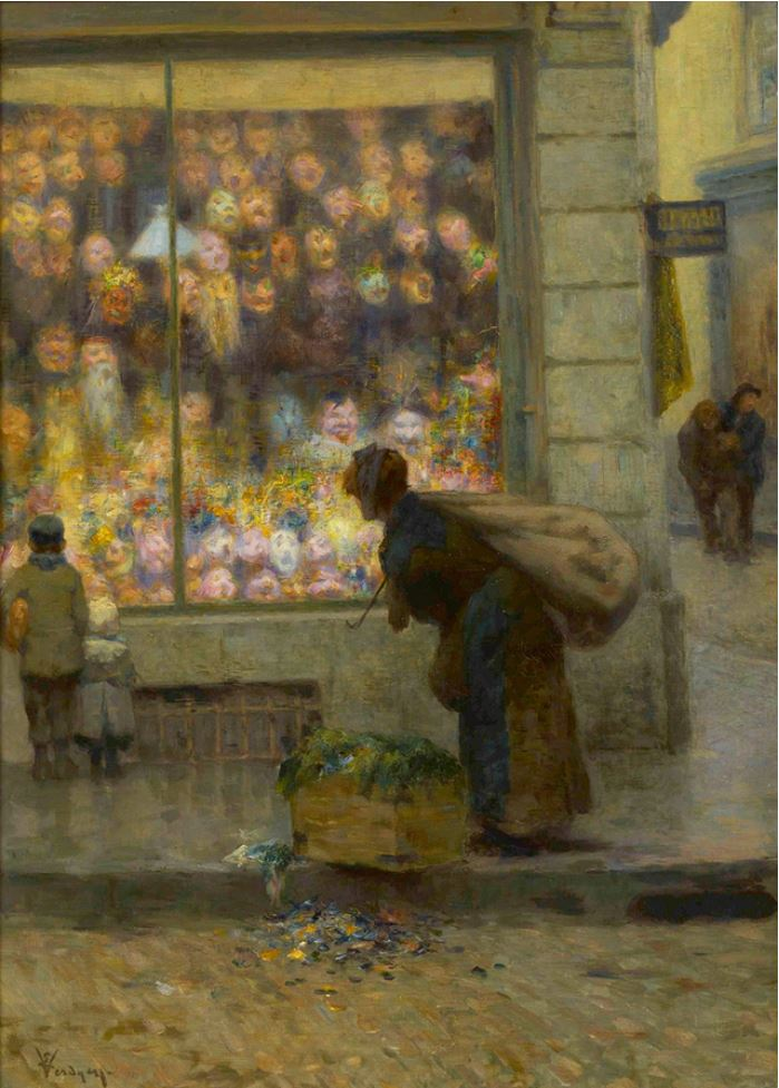 Eugène Verdyen, Mask Shop (Boutique de masques), 1876 (KMSKB, Brussels).A poor woman carrying a heavy bag is looking at the colourful window of a mask shop, as are two children. The two shady figures on the right appear to be drunk. Next to a crate of garbage on the pavement, mussel shells are lying in the gutter.